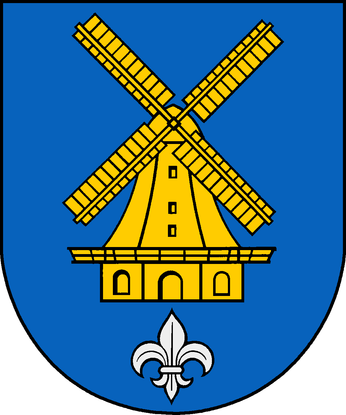 Coat of arms of the municipality Schashagen in Schleswig-Holstein, Germany.